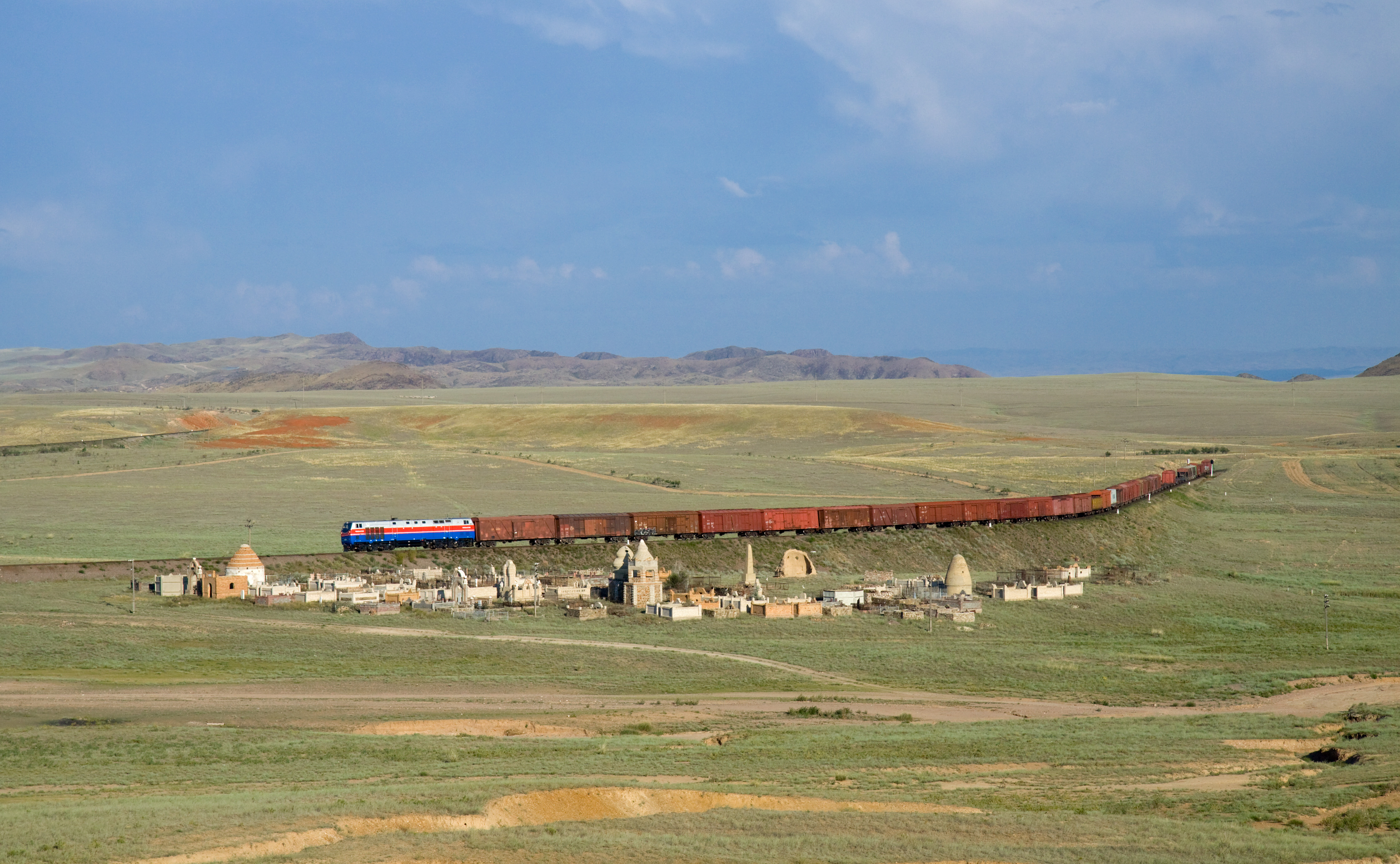 A TE33A of Kazakhstan Temir Zholy (Kazakhstan railways) with a mixed freight train is climbing the pass between Joloman and Saryozek.